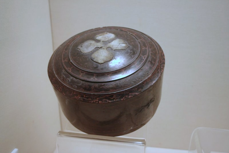 A Chinese Western Han Dynasty (202 BC - 9 AD) red-and-black lacquerware box.